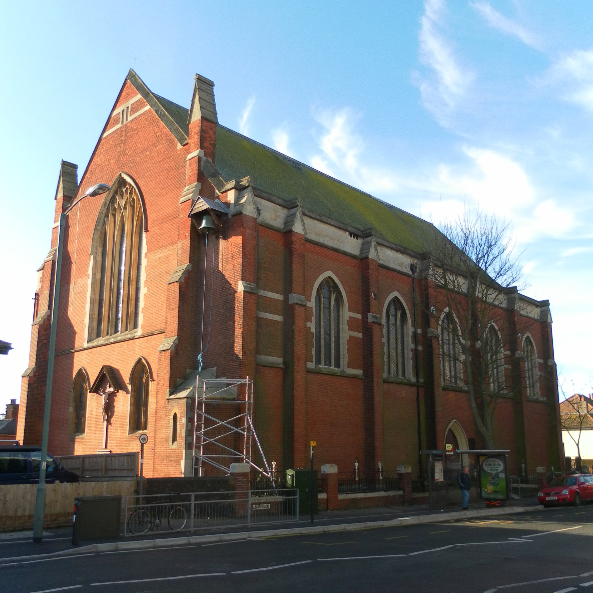 St Mary and St Abraam Coptic Orthodox Church, Davigdor Road, Hove, City of Brighton and Hove, England. Built in 1909–14 as an Anglican church (St Thomas the Apostle); declared redundant in 1993, then bought by the Coptic Orthodox Church of Alexandria.